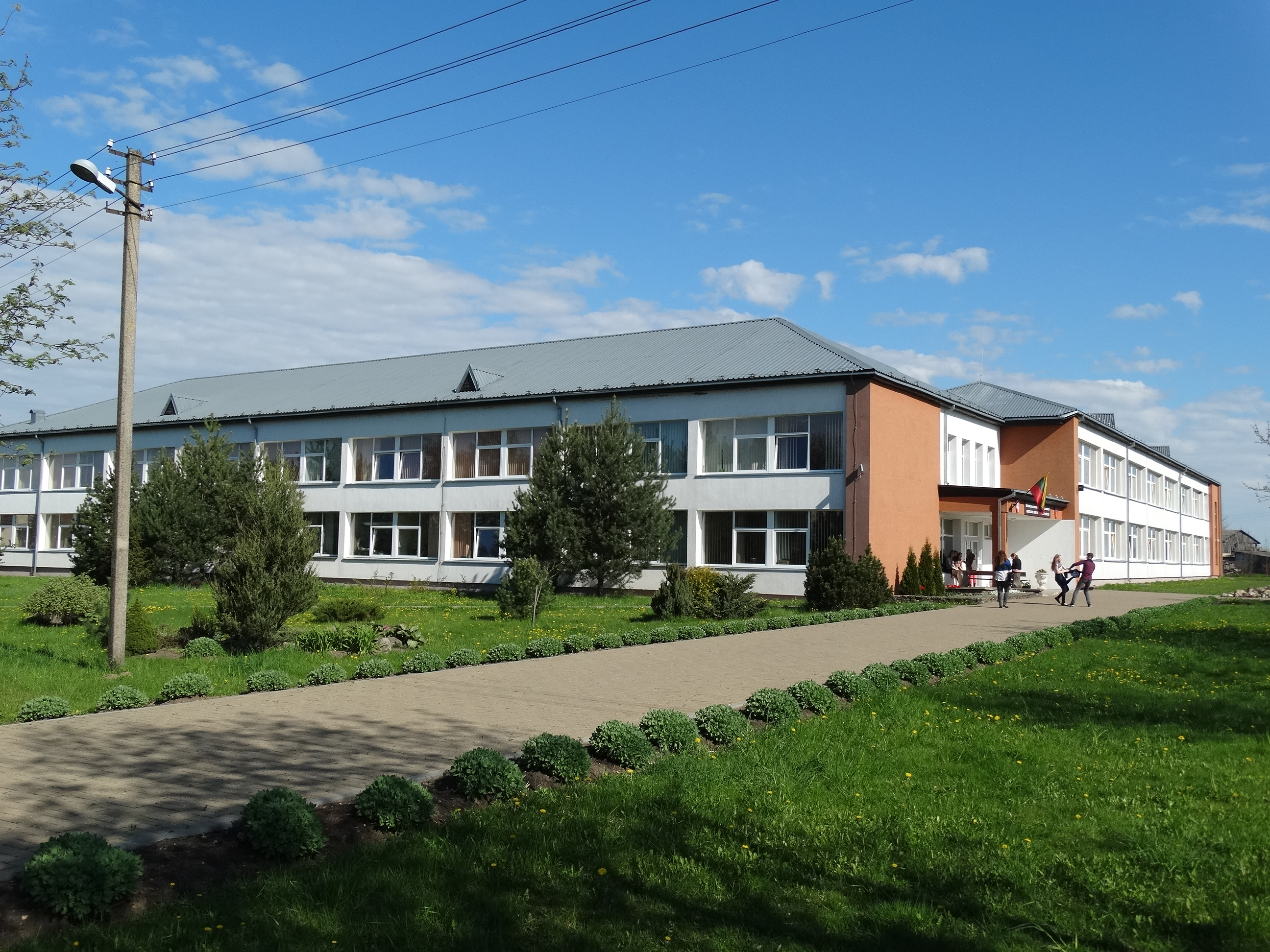 Anna Krepsztul Gymnasium, Butrimonys, Šalčininkai District, Lithuania